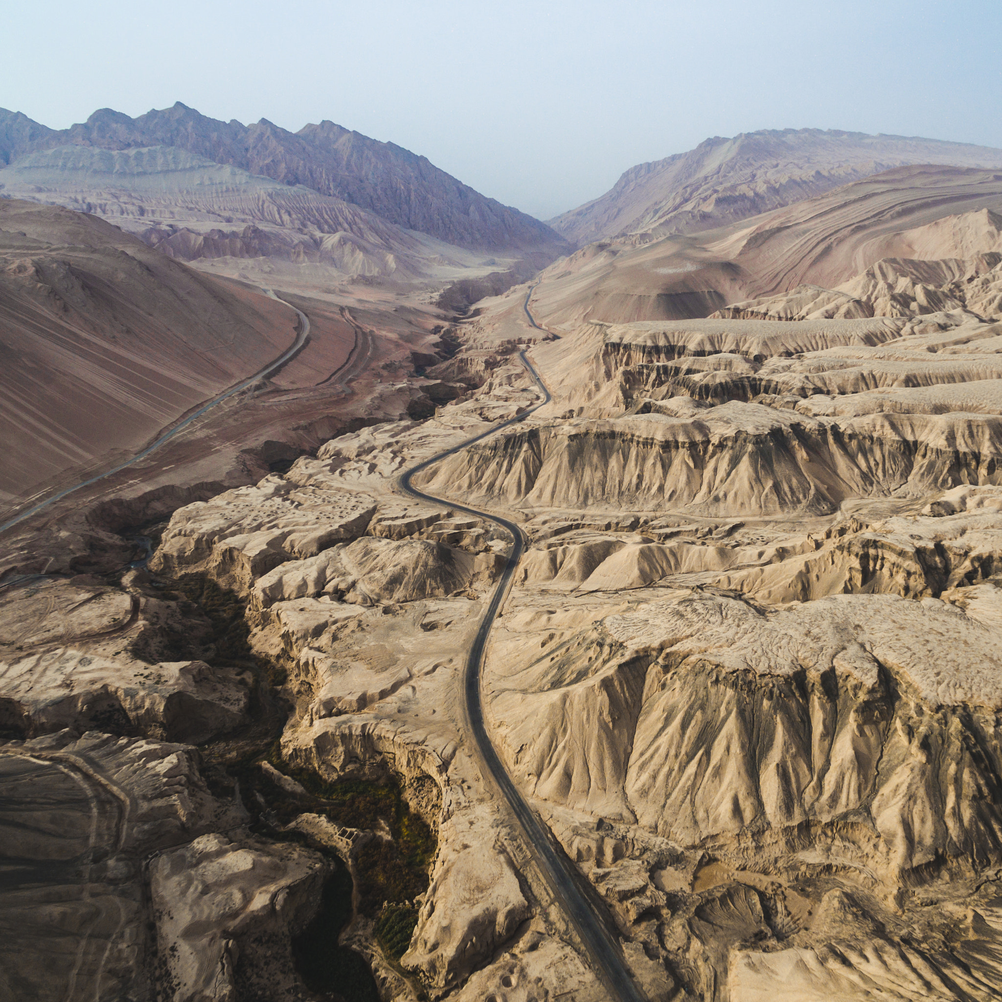 500px provided description: Aerial photos from Xinjiang 2016 [#sky ,#sunset ,#mountains ,#river ,#travel ,#contrast ,#tourism ,#architecture ,#road ,#aerial ,#green ,#asia ,#mountain ,#china ,#outdoors ,#xinjiang ,#scenic ,#phantom ,#view from above ,#drone ,#birds eye view ,#high angle ,#dji]